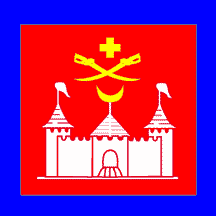 Flag of Khotyn in Chernivtsi Oblast, Ukraine.